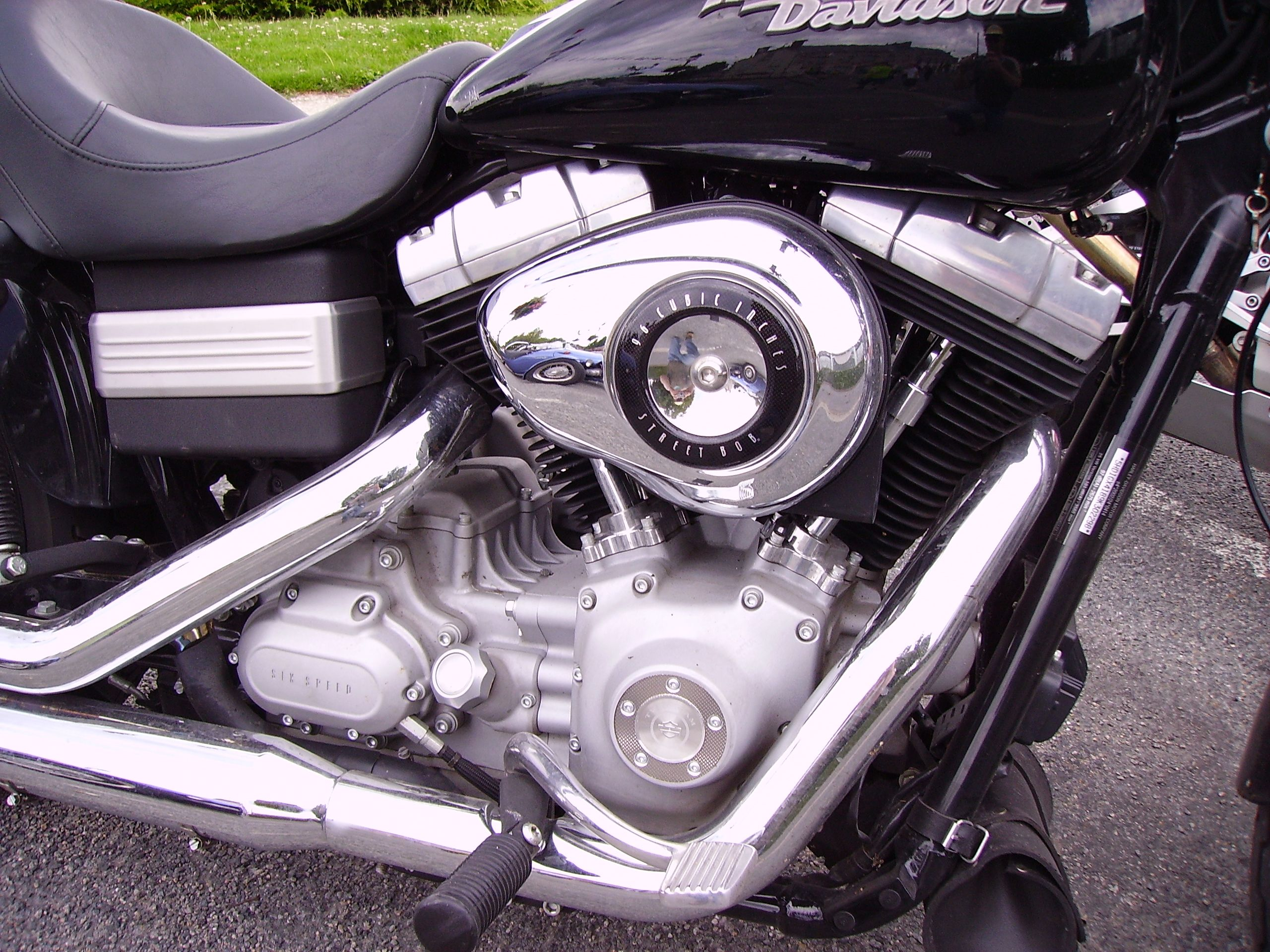 Harley-Davidson Dyna Street Bob motor - 96 cubic inches (1,584 cm3) - 6 speed.